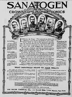 This is a 1911 adv't for Santogen, the subject of the litigation described in Bauer & Cie v. O'Donnell